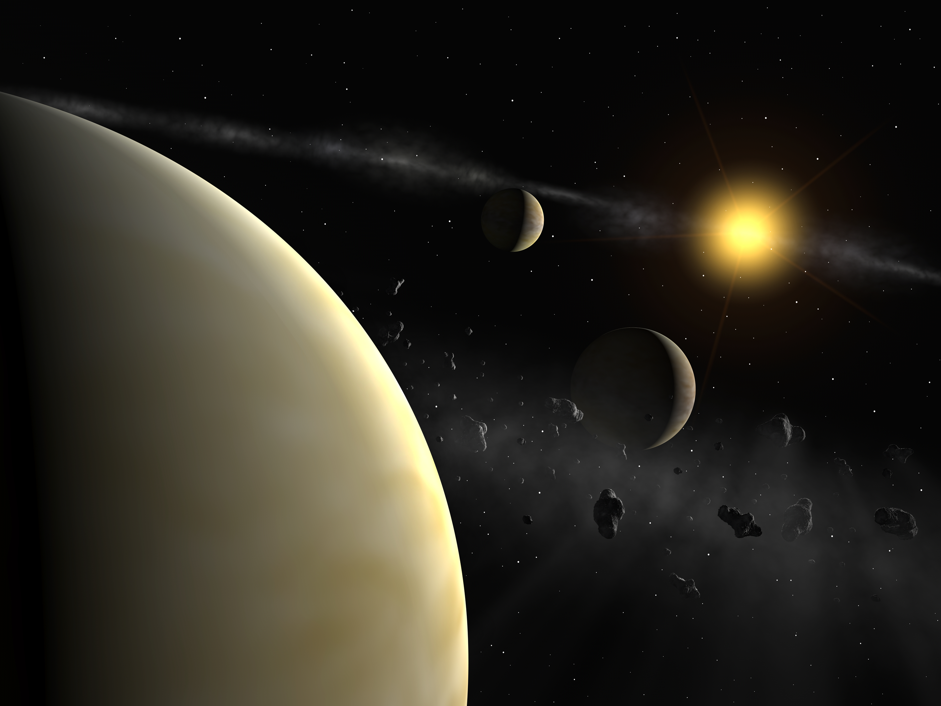 The HARPS measurement reveal the presence of three planets with masses between 10 and 18 Earth masses around HD 69830, a rather normal star slightly less massive than the Sun. The planets' mean distance are 0.08, 0.19, and 0.63 the mean distance between the Earth and the Sun. From previous observations, it seems that there exists also an asteroid belt, whose location is unknown. It could either lie between the two outermost planets, or farther from its parent star than 0.8 the mean Earth-Sun distance.